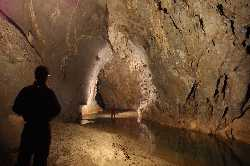 Inside of 16km long Chom Ong Cave in Oudomxay Province, Northern Laos. ©Torben Bjerring Redder